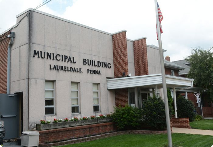 Laureldale Borough Hall